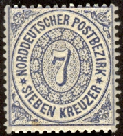 A postage stamp of the North German Confederation, 7 kreuzer, perforated 14, issued in 1869 for use in the Southern District, Mi22